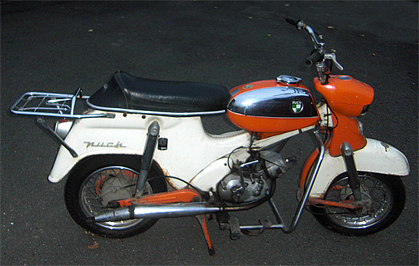 A Puch DS 50 VN from 1968. The Swedish name of the model is Puch Mexico.